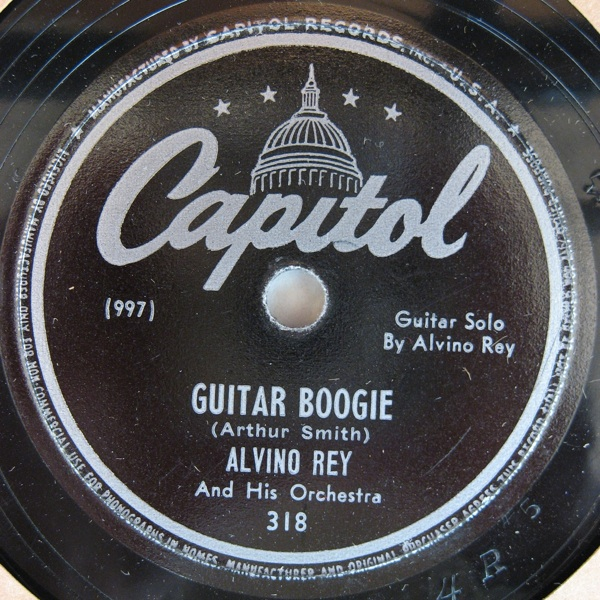 shellack Alvino Rey Orchestra guitar boogie